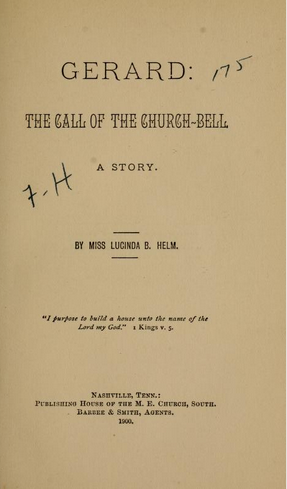 Gerard: The call of the church-bell, a story, by Helm, Lucinda Barbour